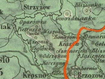 Zamieszańcy (File:Zamieszańcy.png) on an austrian map from 1855